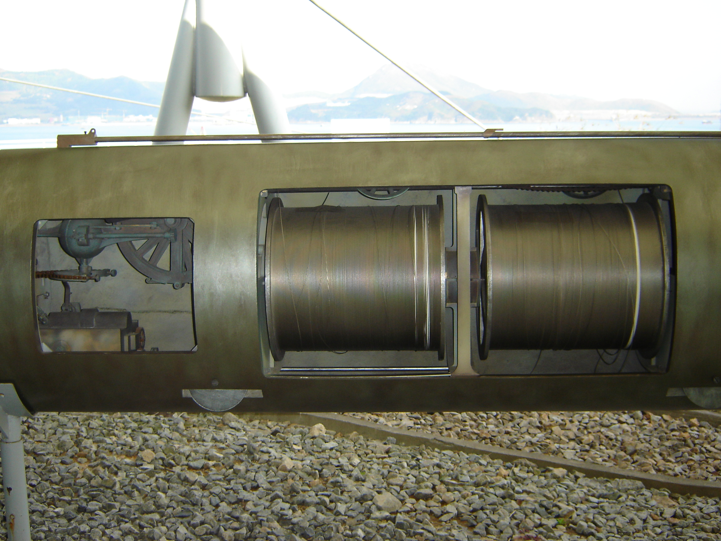 Cutaway of replica Brennan torpedo showing wire spools used for propulsion and guidance